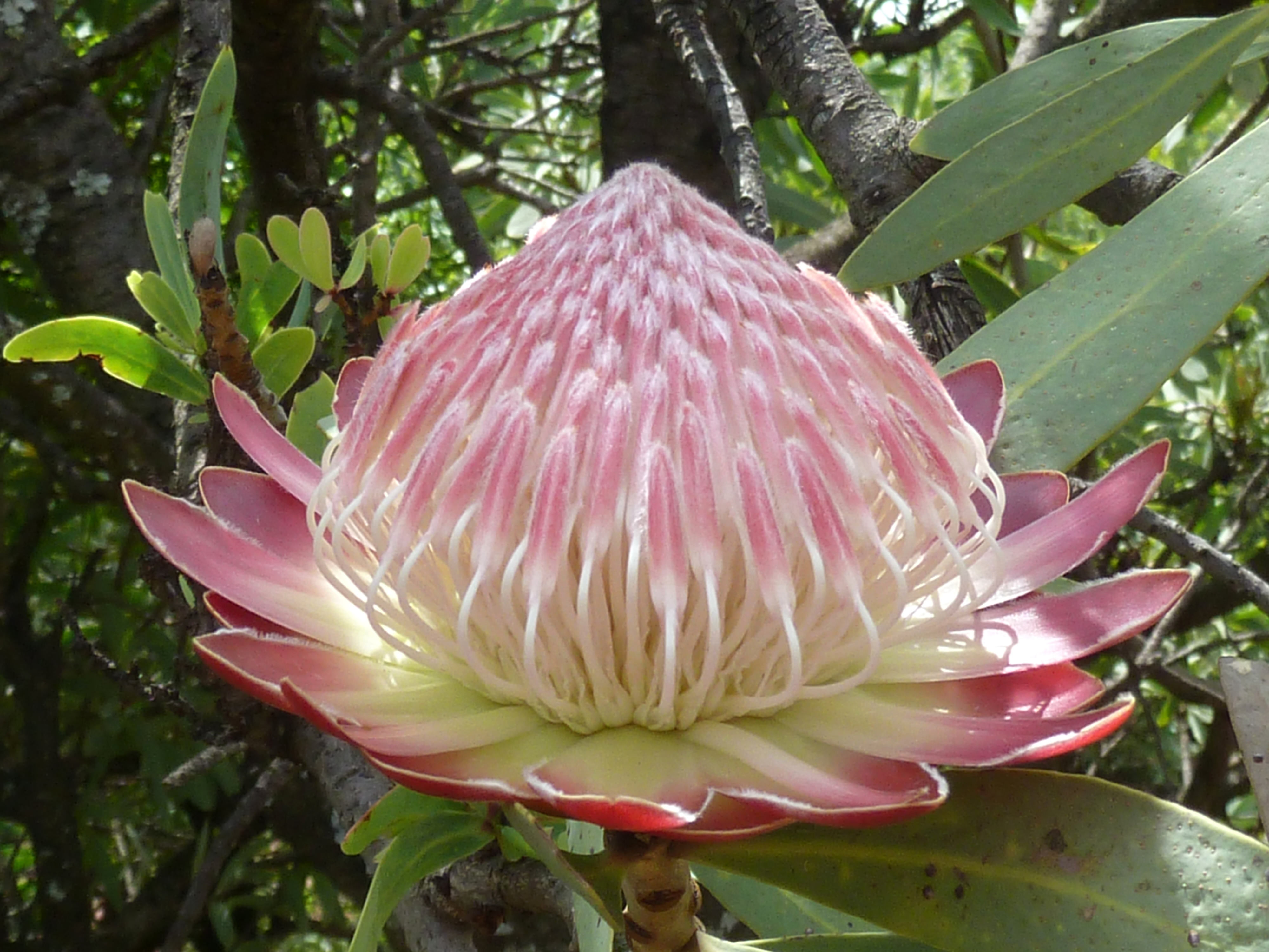 Open flower head of a Sugarbush in the Voortrekker Monument Nature Reserve, near Pretoria